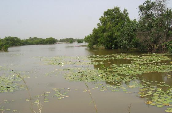 Marshlands with a rich birdlife